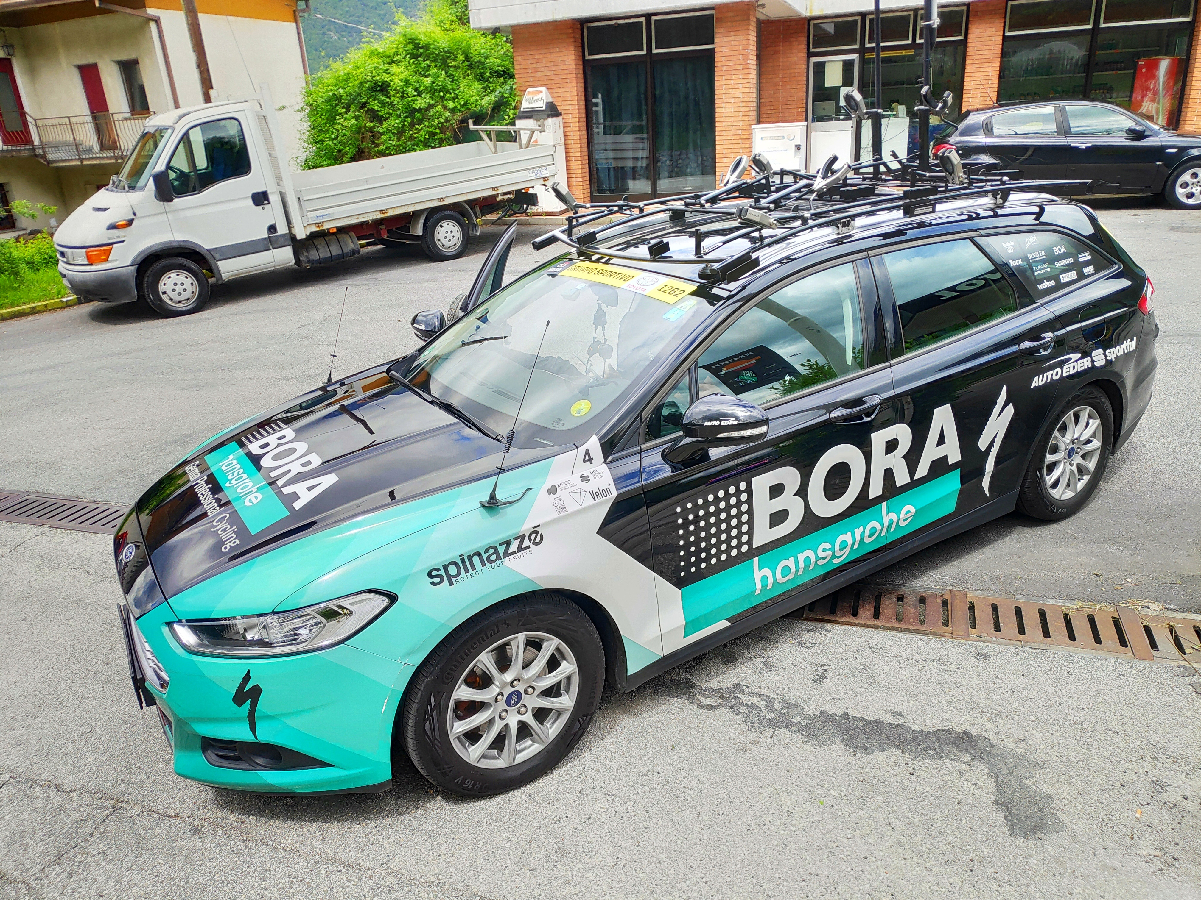 Bora-hansgrohe support car (2019 Giro d'Italia)